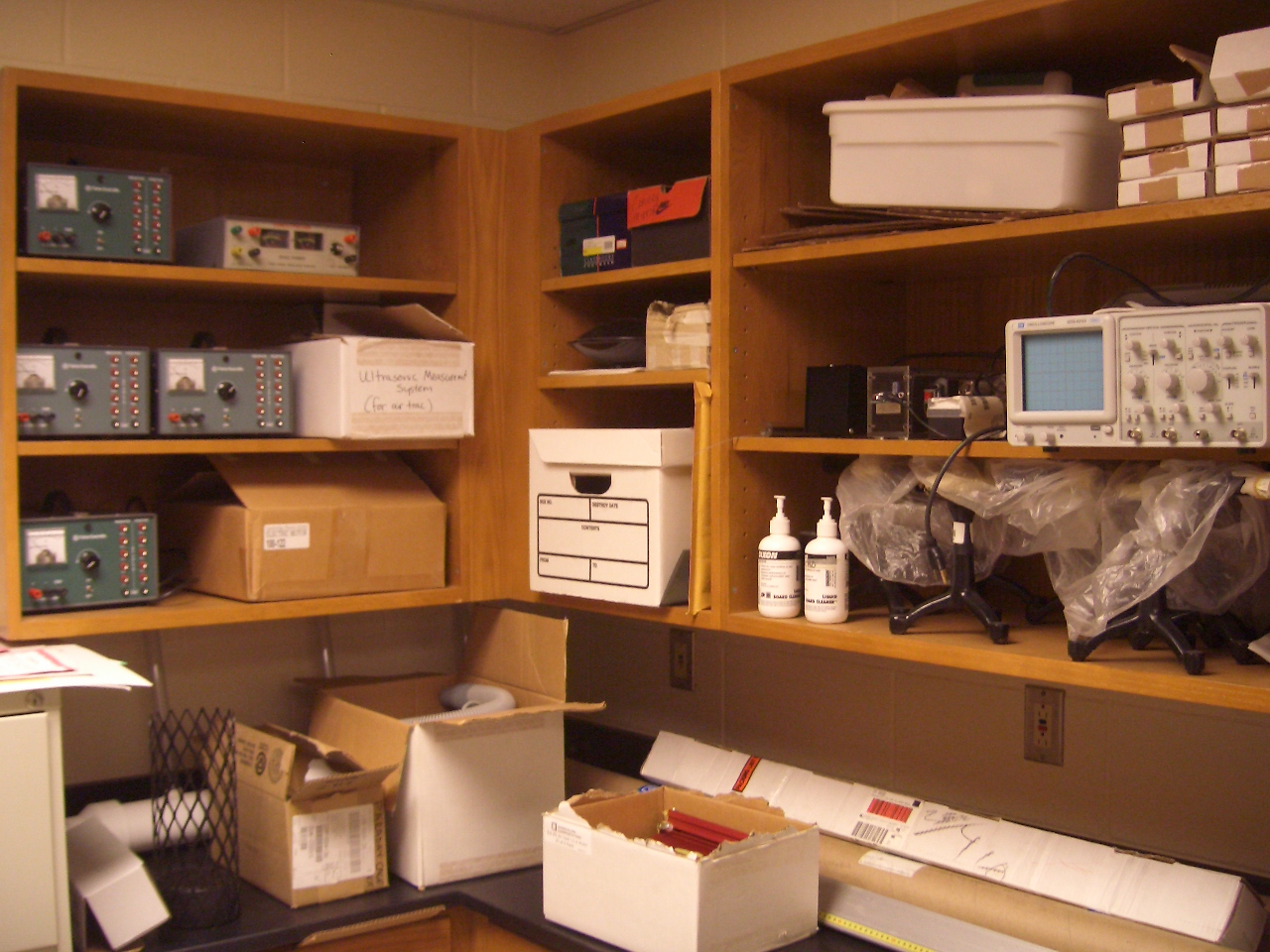 Green Hope High School Physics laboratory equipment illustrates the resources available to students. Such equipment is not common in high schools. Shown are: high-amperage power supplies, faraday cages, digital oscilloscope, and other tools.